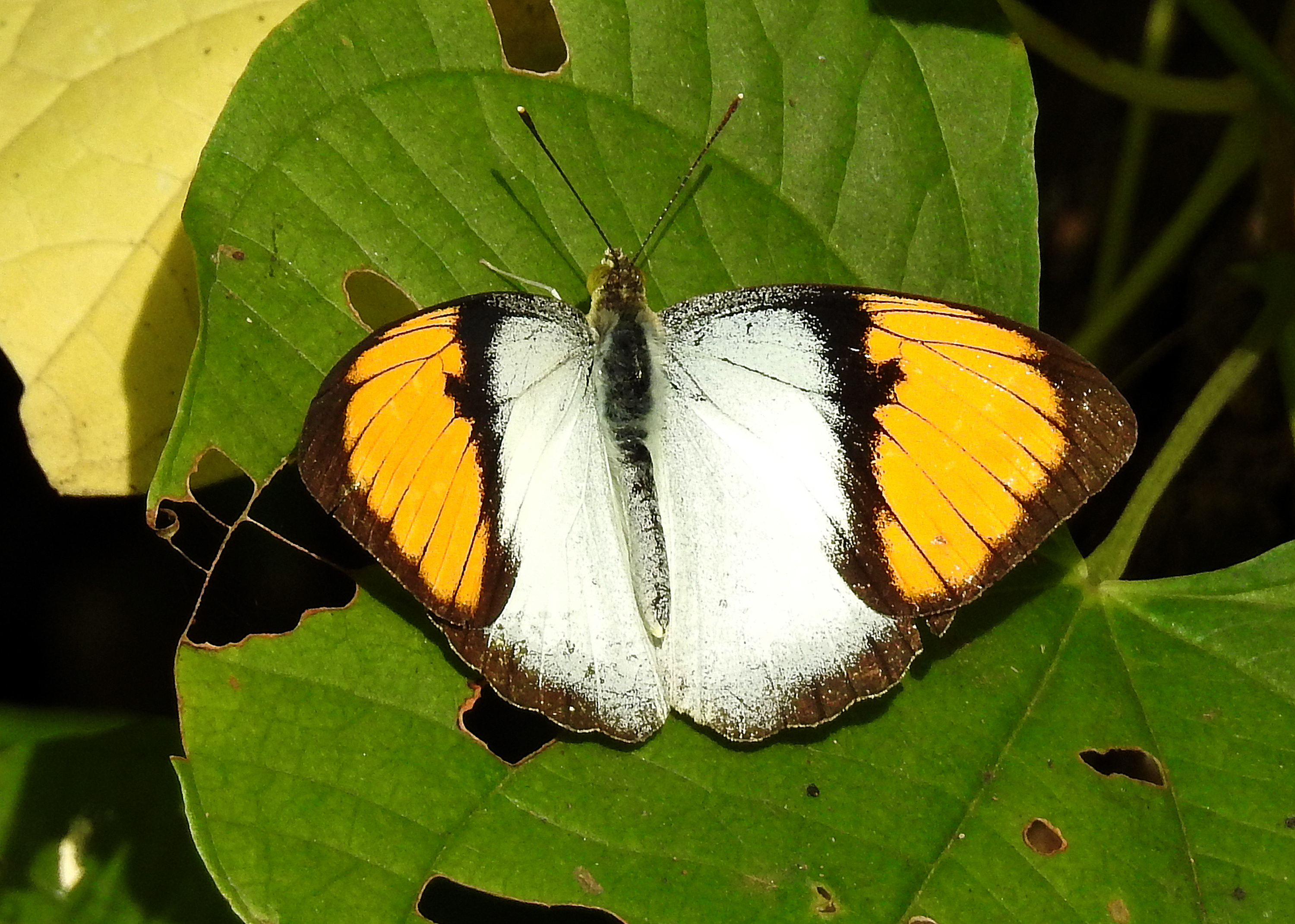 White Orange Tip Ixias marianne male UP by Dr. Raju Kasambe